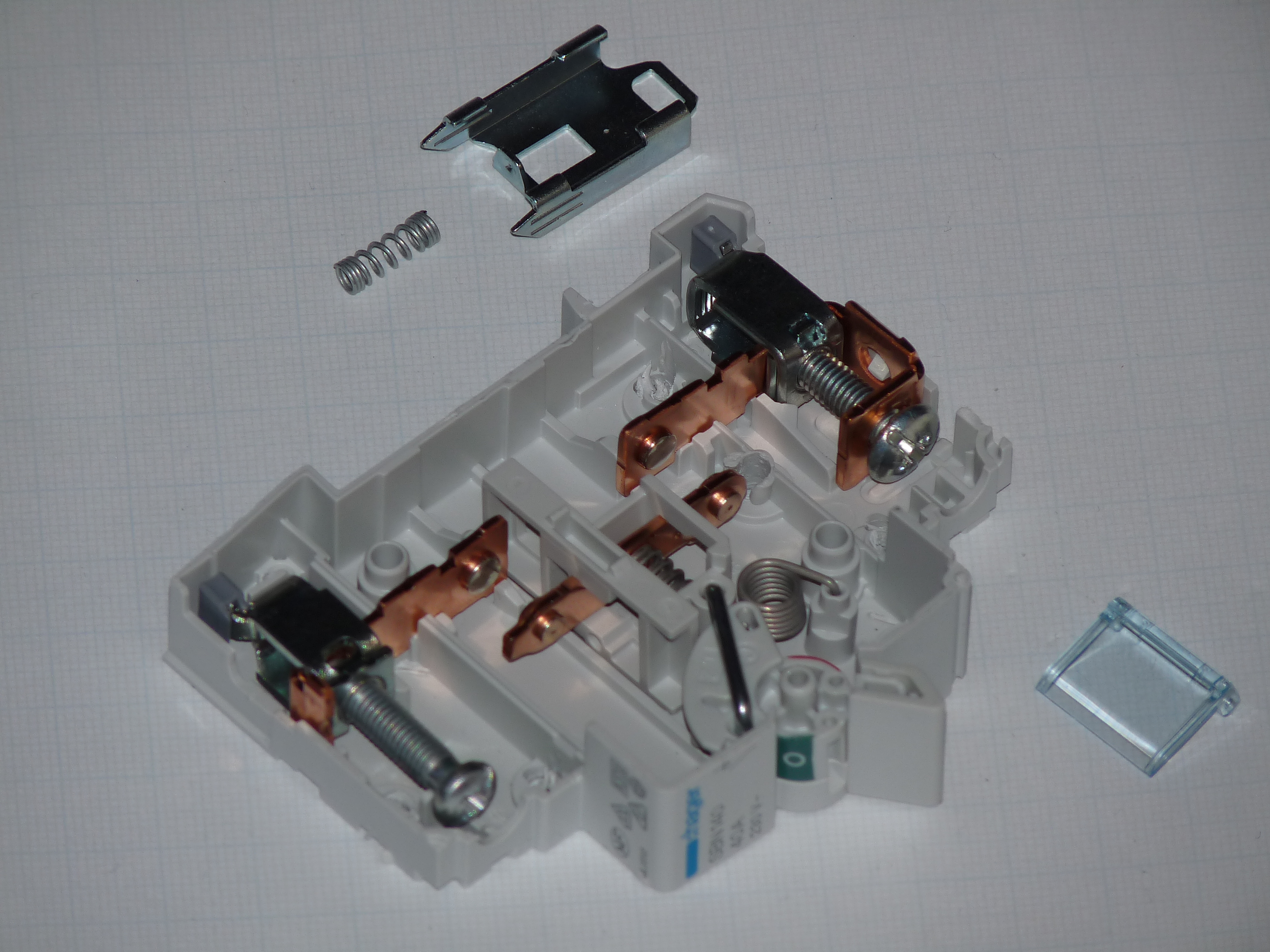 Hager load switch for DIN-rail, I(n)=40A